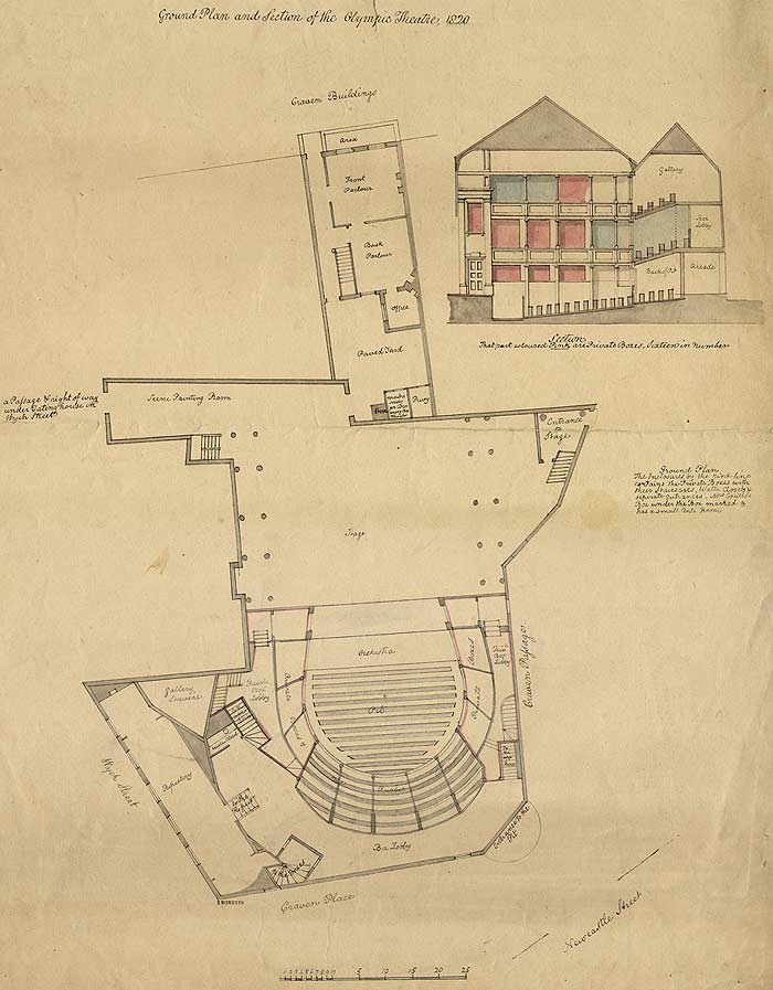 Architectural drawings of the Olympic Theatre on London's Strand in the collection of the UK Theatre Museum (V&A)